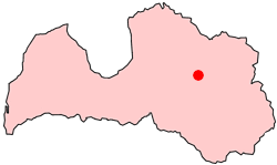 Location map of Cesvaine city, Latvia.